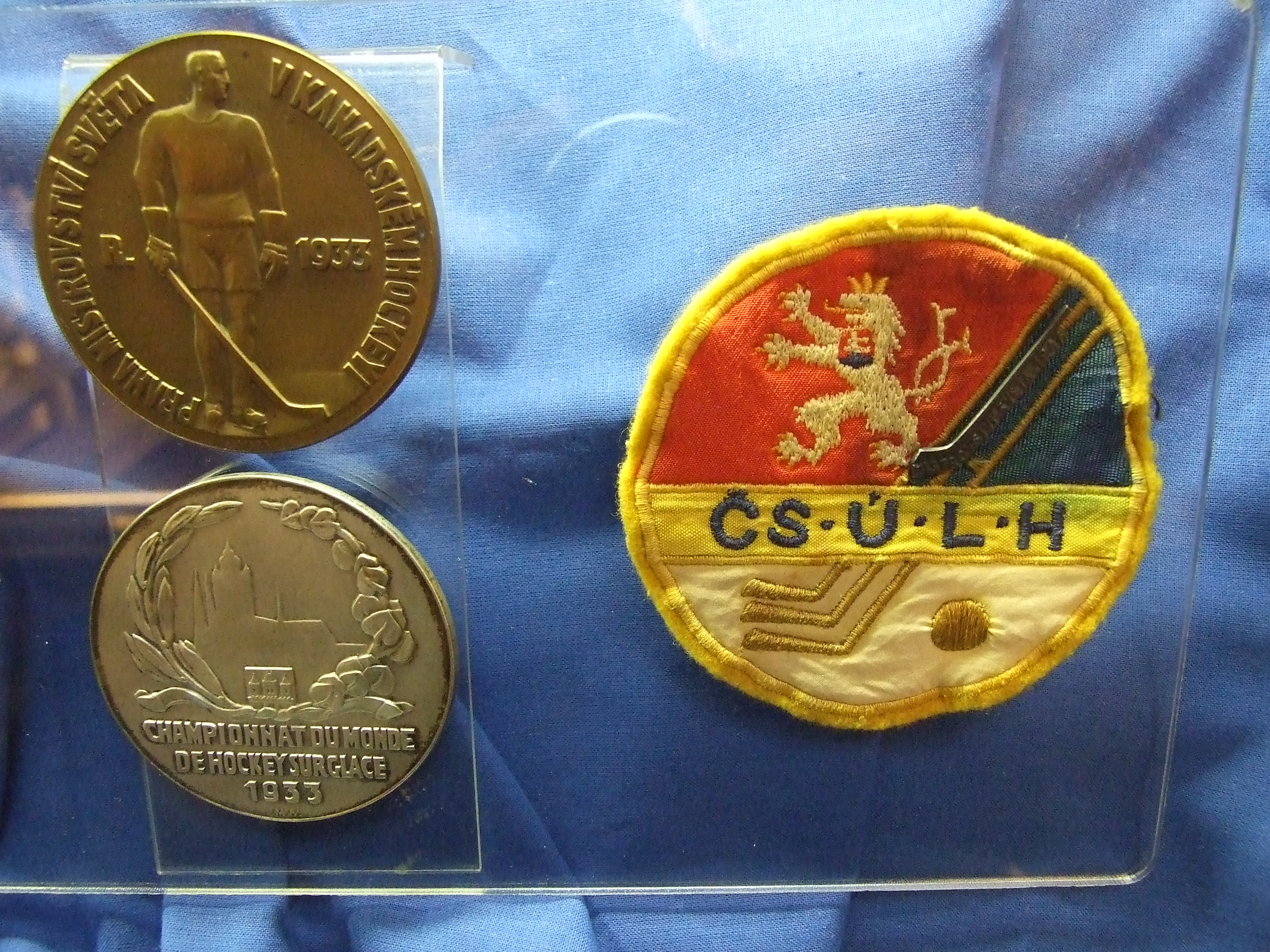 The adverse and reverse sides of the commemorative of the Ice Hockey World Championship held in Prague in 1933 - One Century Of Czech Ice Hockey Exhibition, National Museum in Prague: [1]